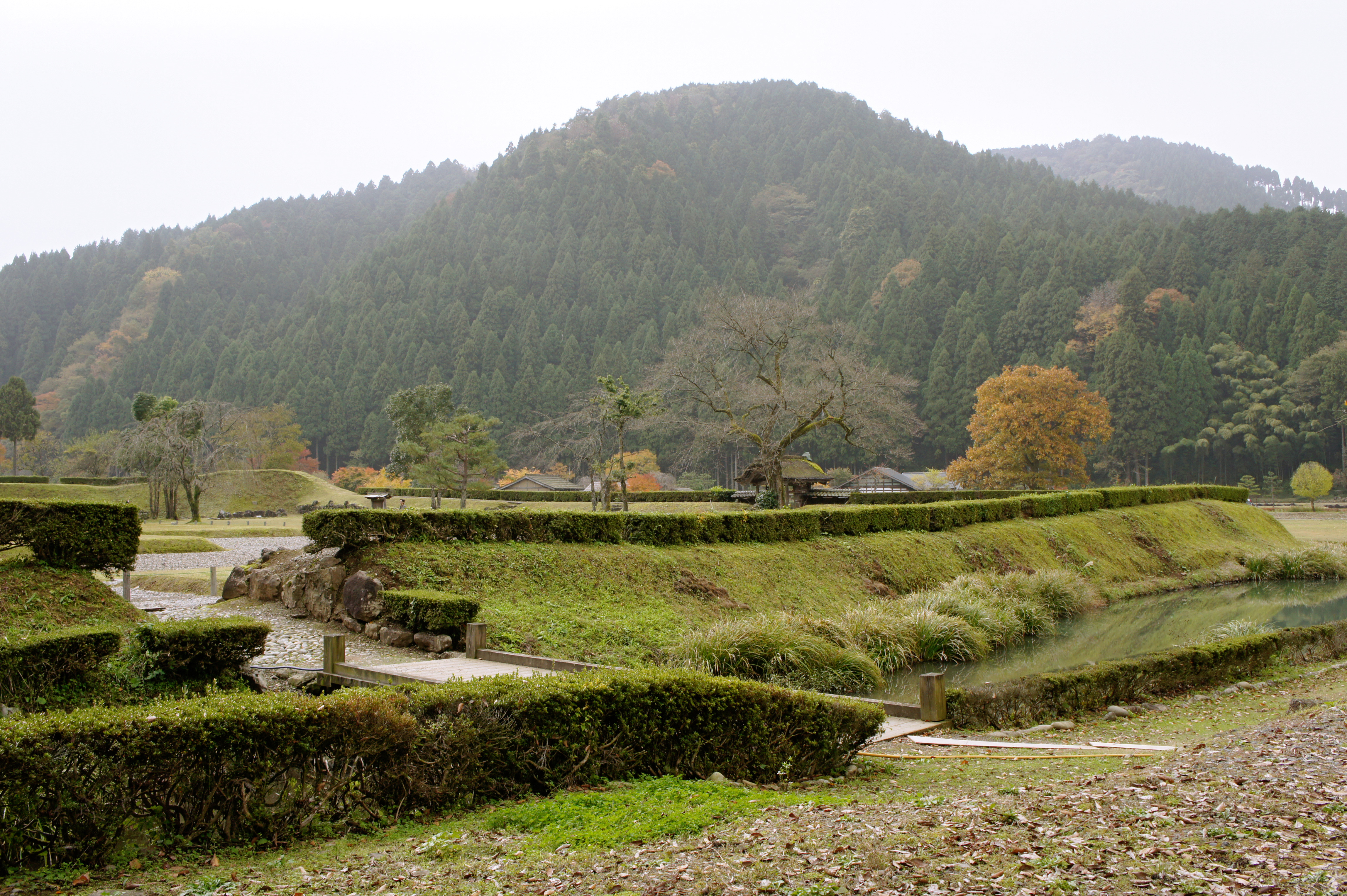 Asakura Yakata of Ichijōdani Asakura Family Historic Ruins in Fukui, Fukui prefecture, Japan.